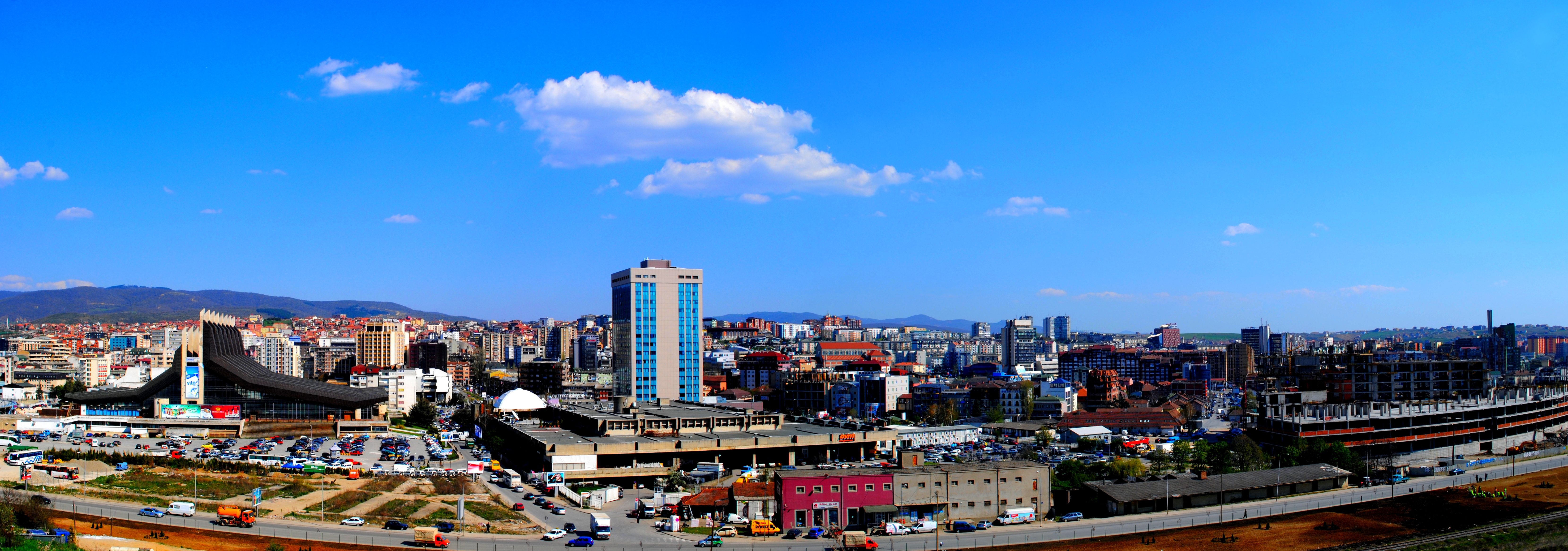 Panorama of Prishtina